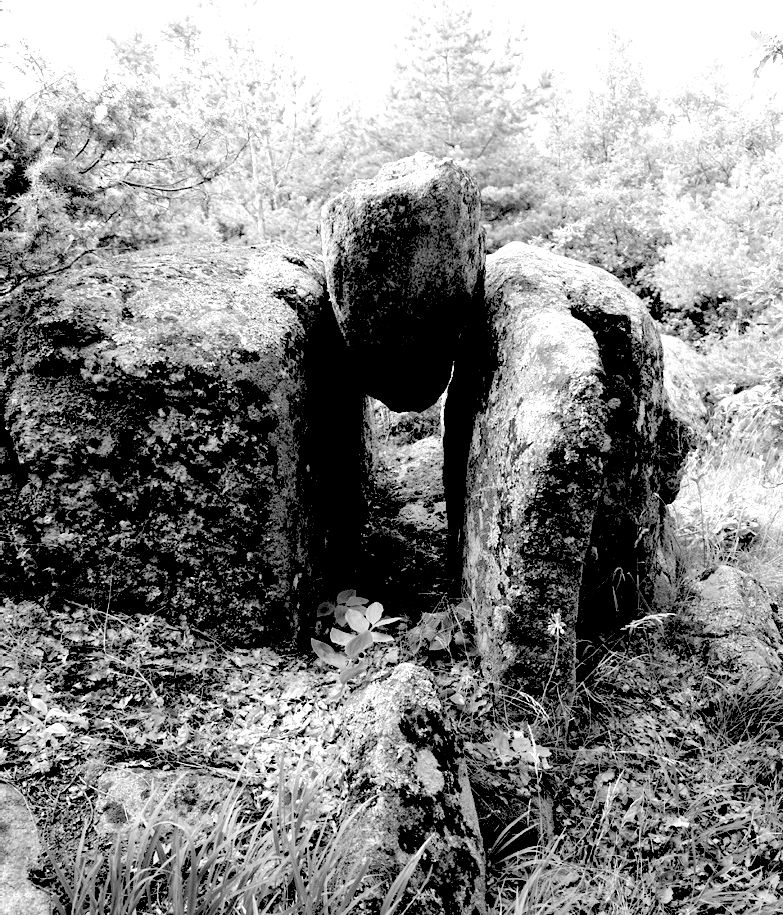 Slaveeva skala dolmen BG